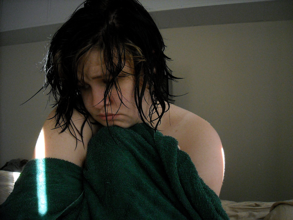 Adolescent girl is sad.